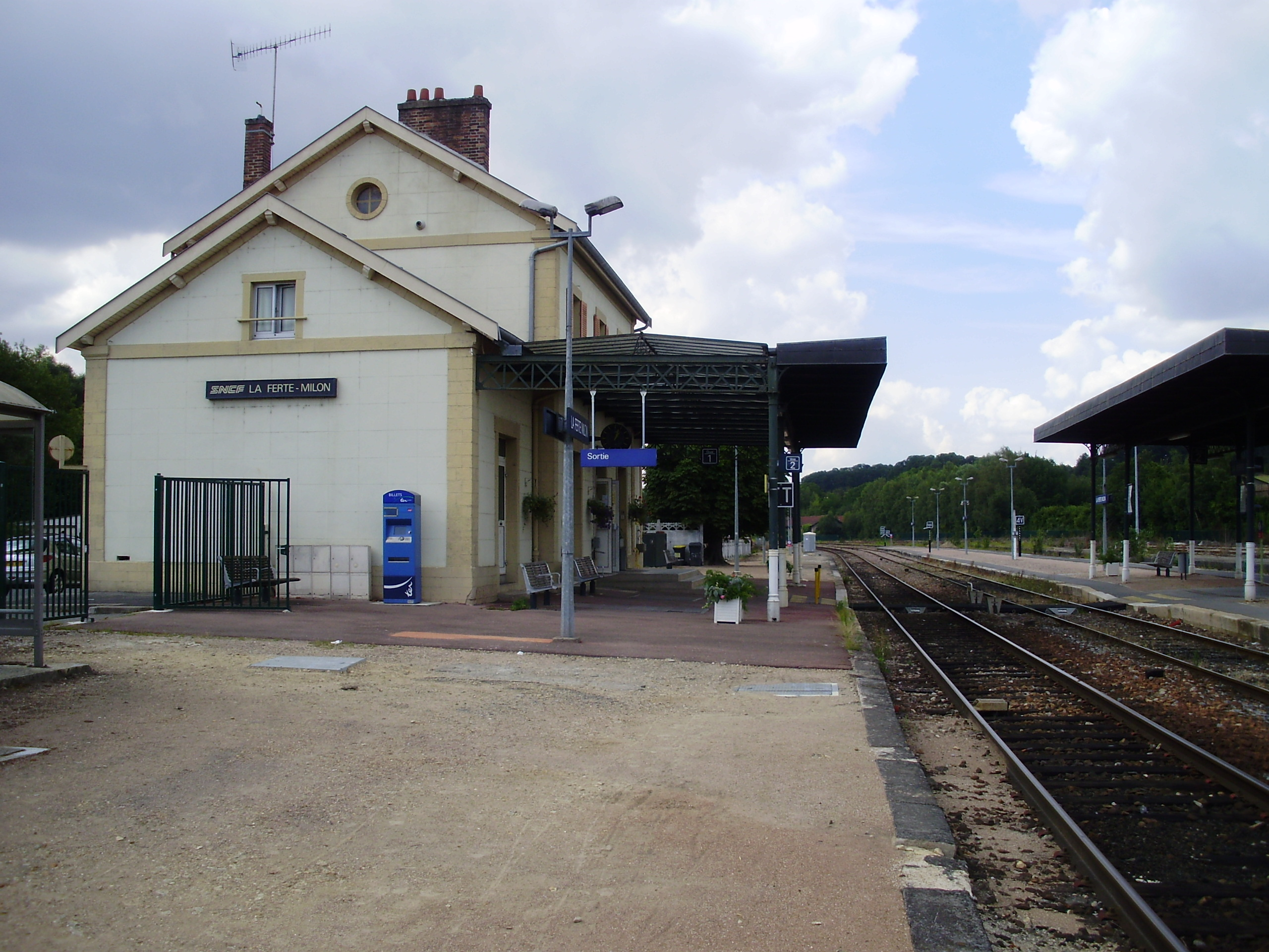 La Ferté-Milon station, Aisne, France (view by looking to Meaux)